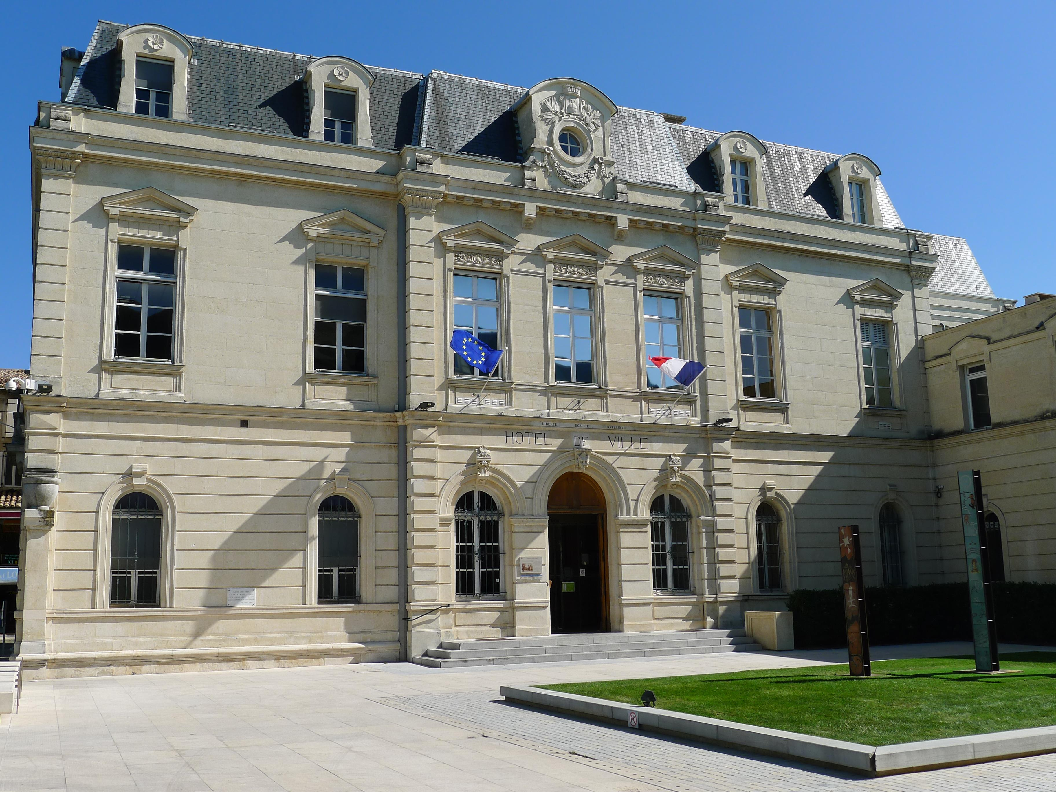 Town hall of Montélimar - Drôme - France